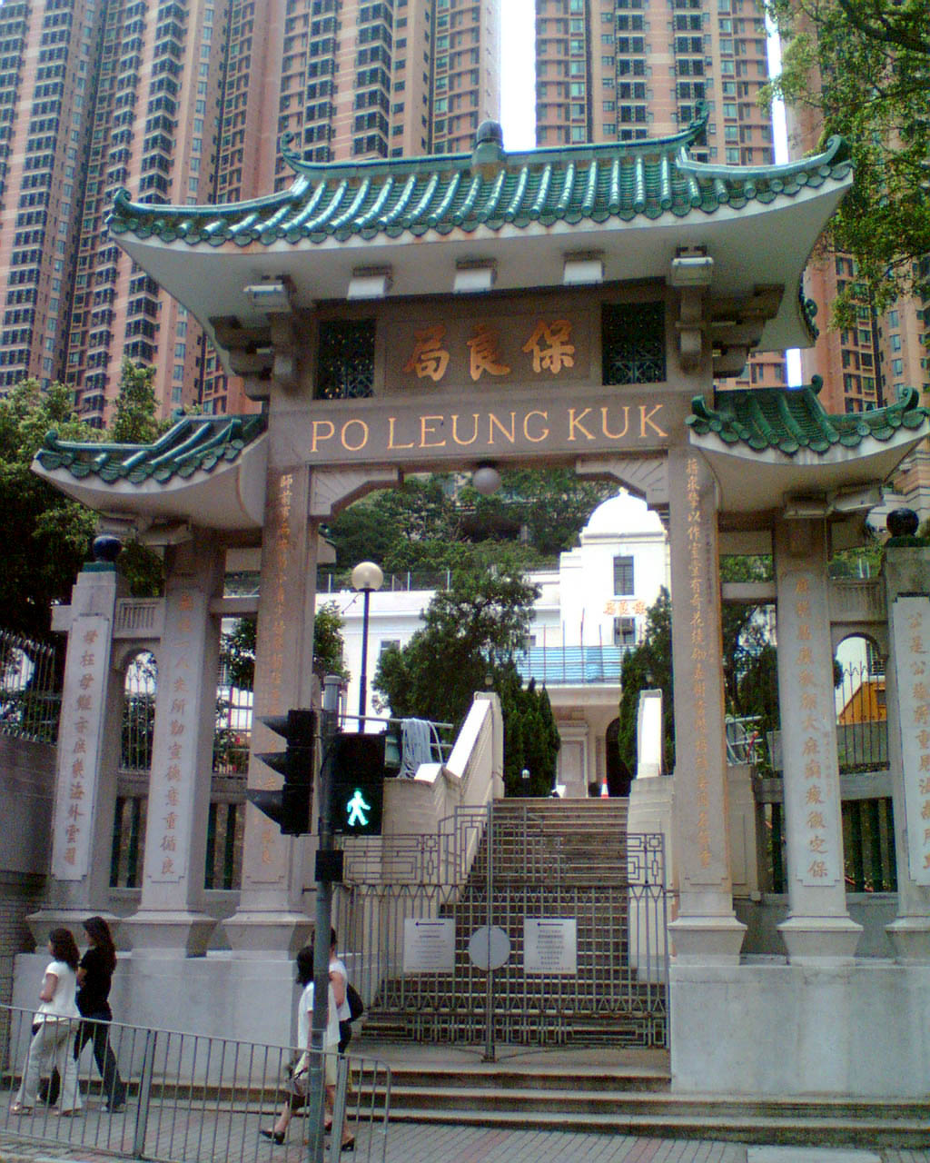 Po Leung Kuk.中文（香港）: 香港禮頓道保良局正門牌坊。